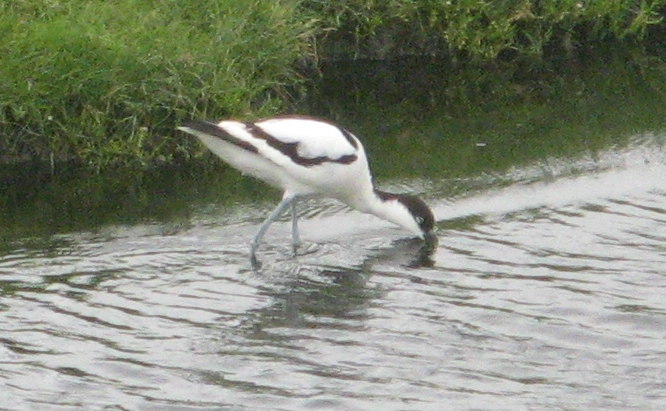 Recurvirostra avosetta in the Speicherkoog